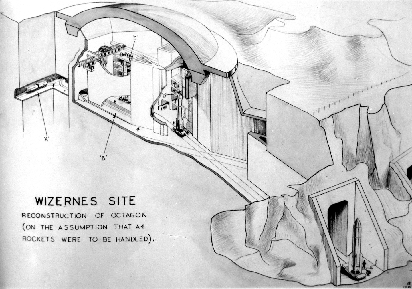 Wizernes site: reconstruction of Octagon (on the assumption that A4 rockets were to be handled)